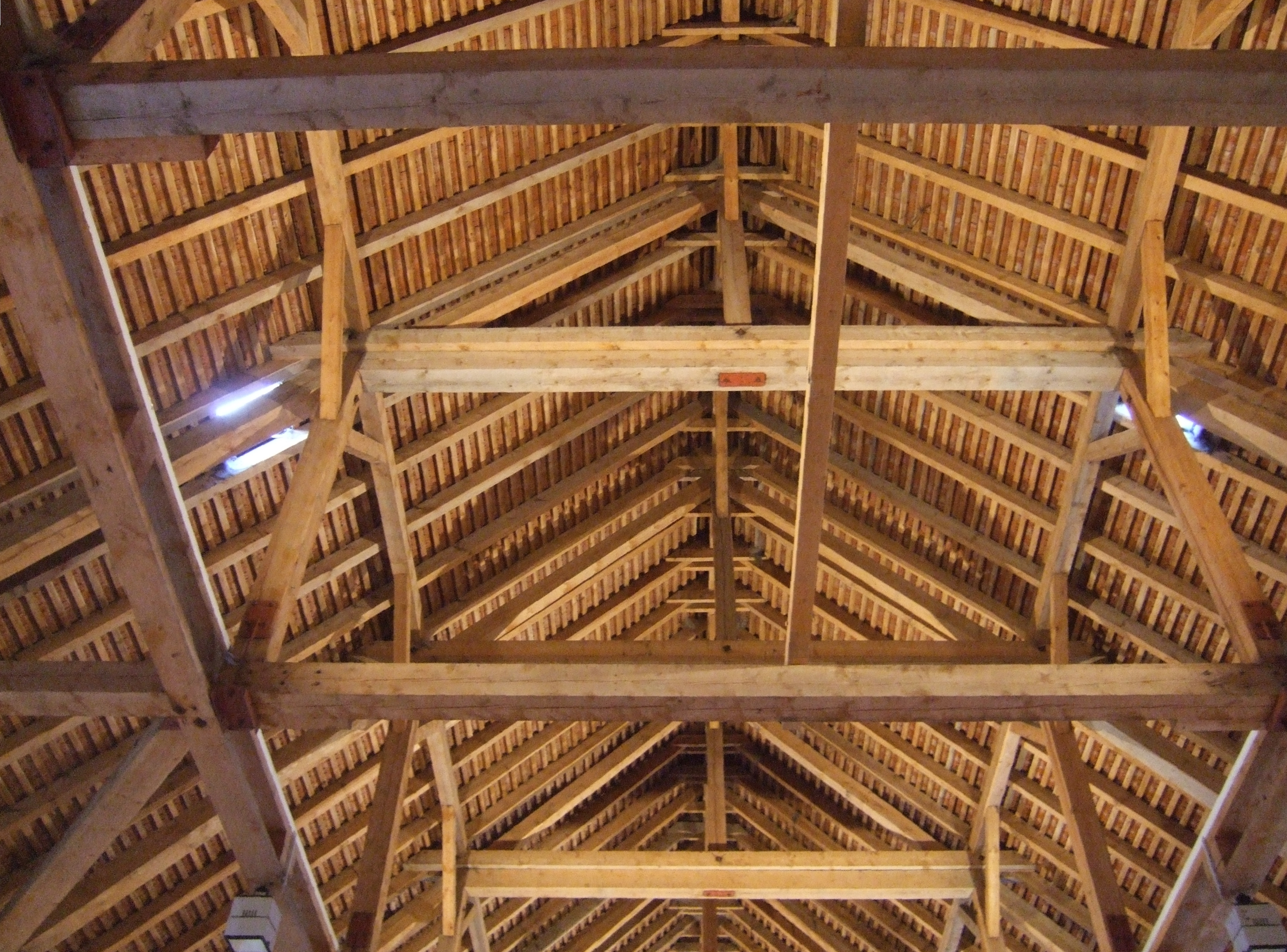 Schäftlarn Monastery: roof framework of the Martinstadel